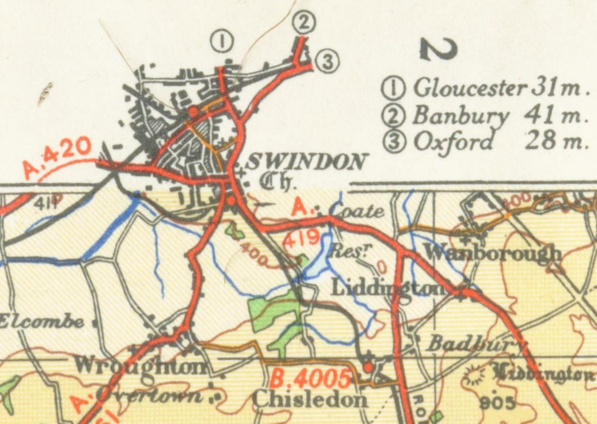 Os map of swindon from 1945 scale 1/4 inch to the mile